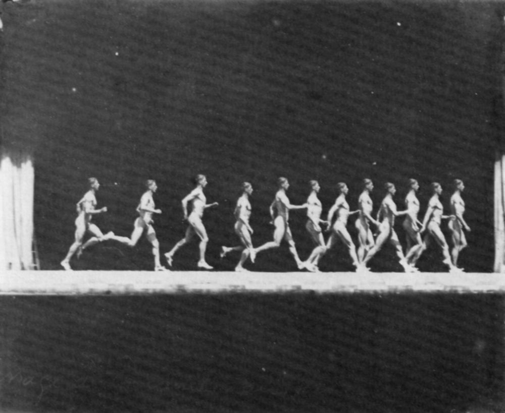 Changing from running to walking